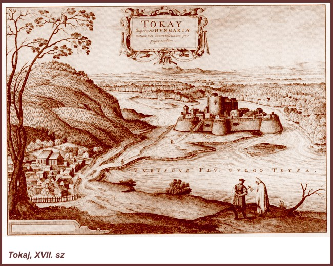 Castle - Tokaj - Hungary - Europe